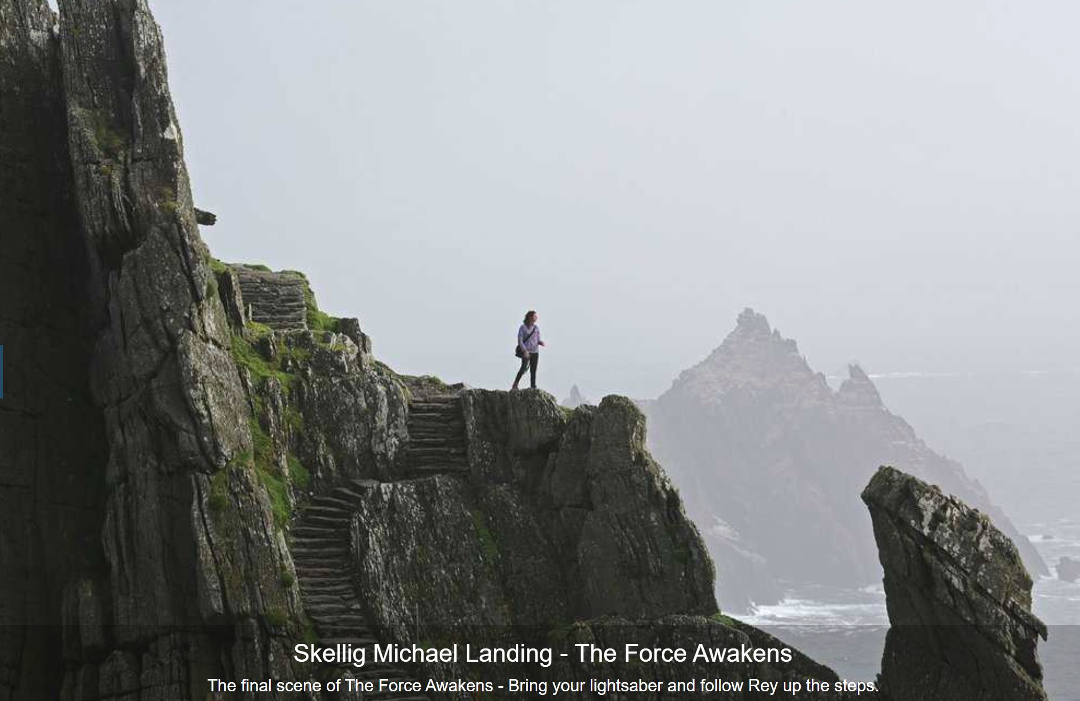 Skelling Michael the final scene of The Force Awakens sees Rey ascend Skellig Michael (yes it's real and in Ireland) to the Jedi Temple in search of Luke Skywalker.